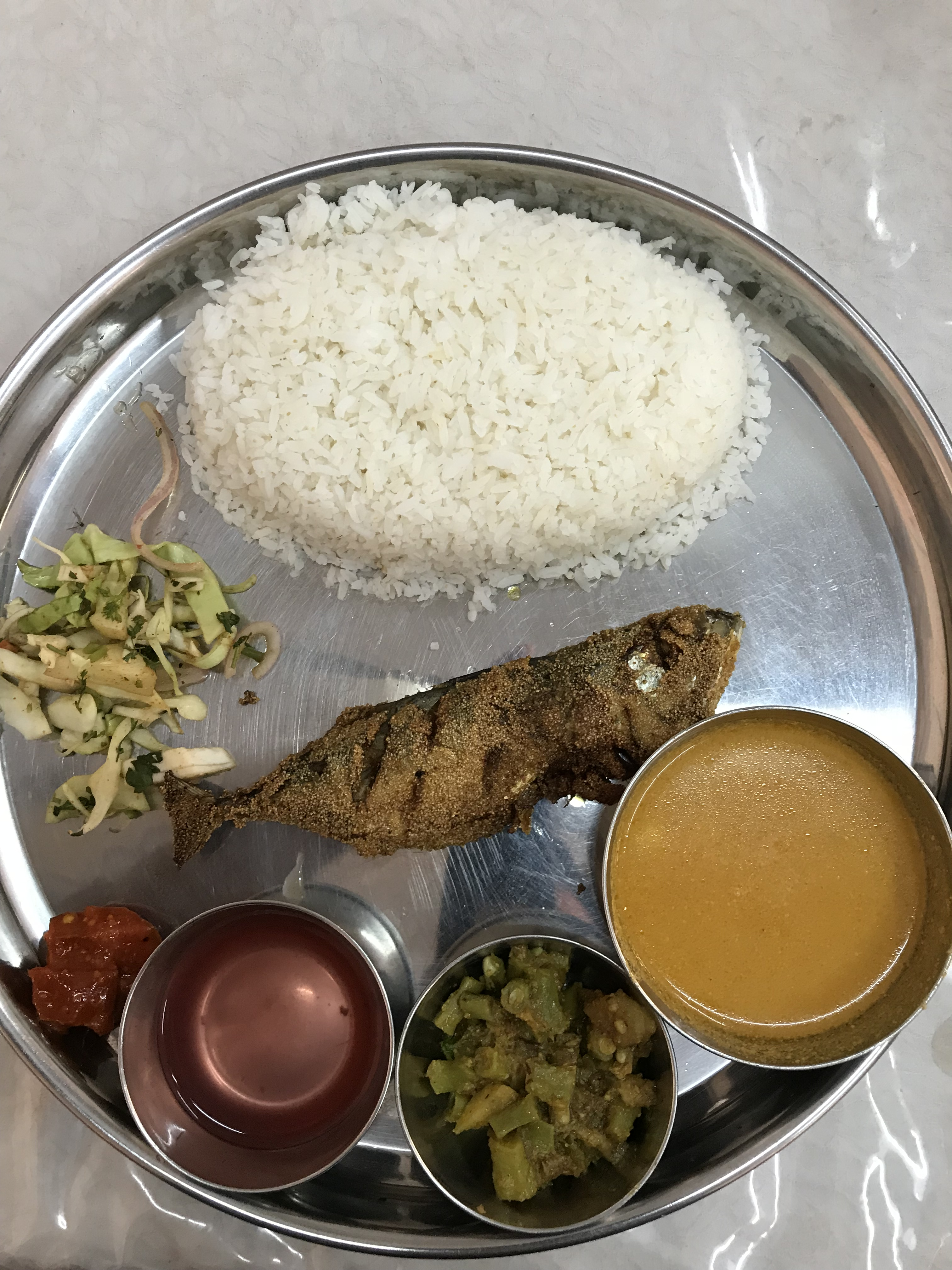 Goan Fish thali is a popular platter found in Goa, India. It mainly contains, Rice, Vegetable Salad, Kismur – A preparation which can be referred to as a coconut salad of freshly grated coconut with tawa fried galmo (dried prawns) mixed with turmeric, chili powder, coconut oil and golden brown onions, Kodi (Curry), Fried fish (rava fried kingfish or chonak), Pickle, Sol Kaddi – This is a special coconut milk mixed with kokum juice and garnished with finely-chopped coriander which works as a digestive, good for digestion.